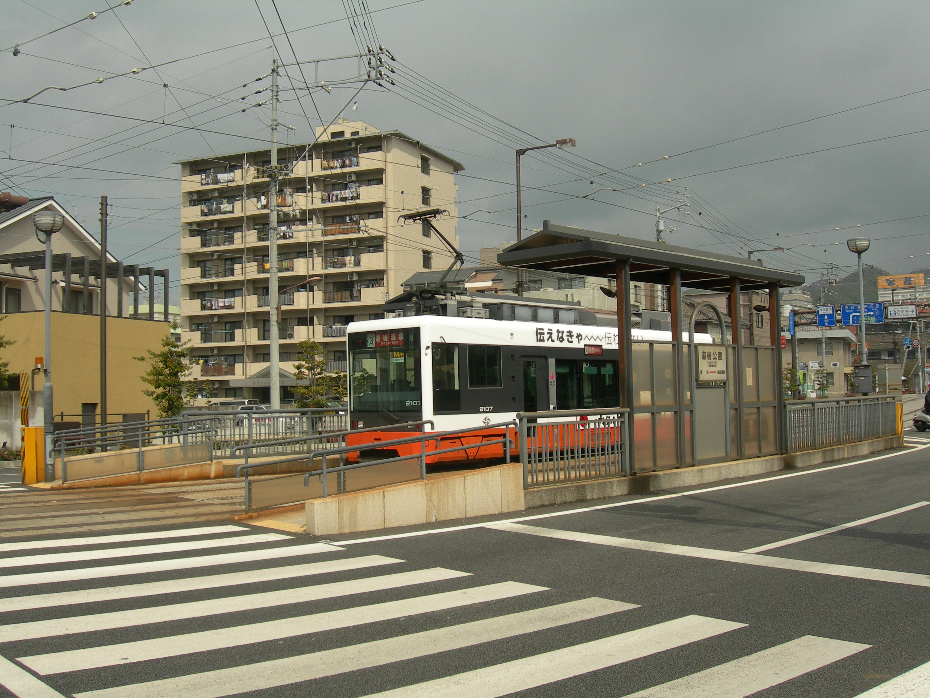 Iyo Railway Dogo Koen Station